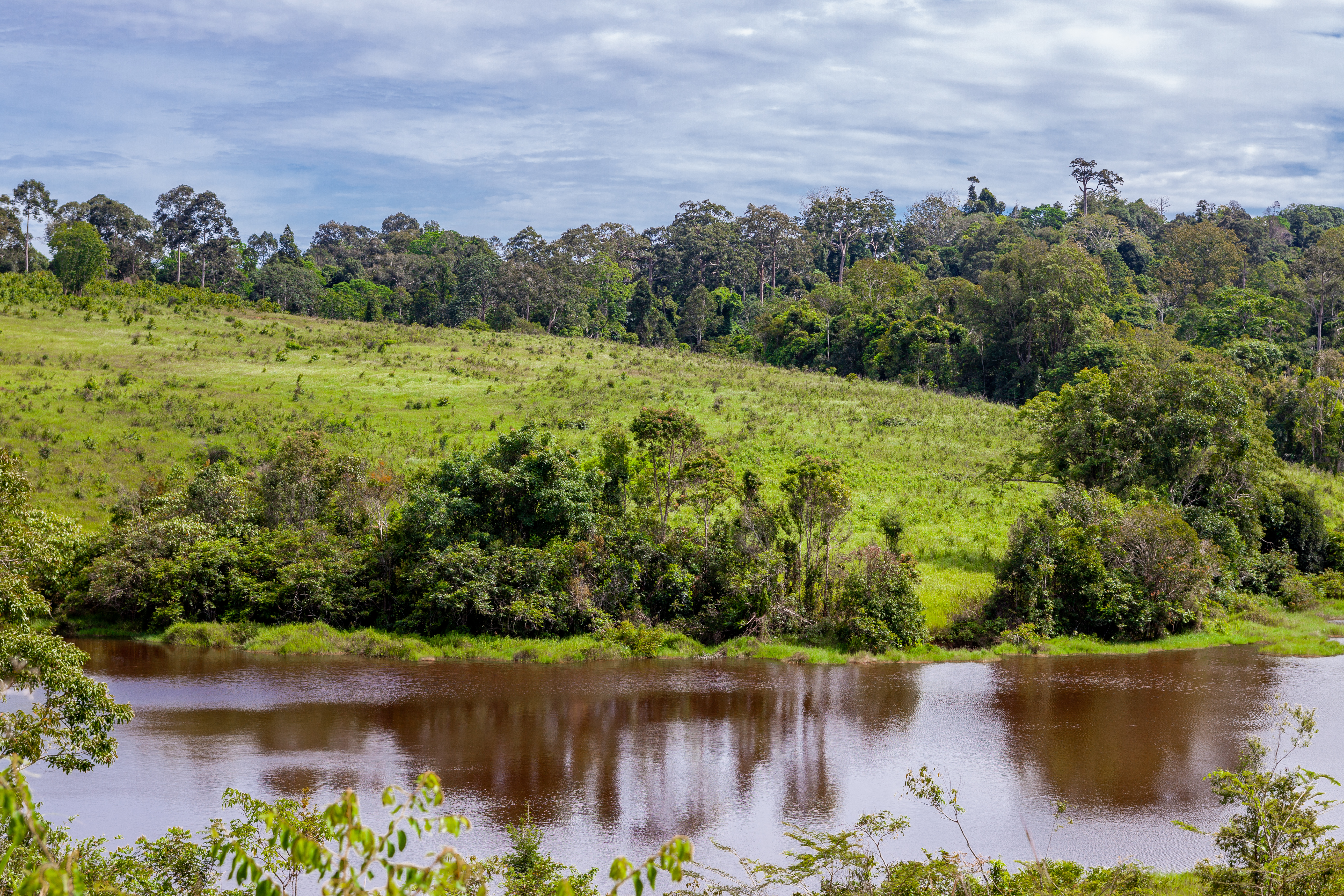 View of Nong Phak Chi landscape from Observation tower in Khao Yai National Park, Nakhon Ratchasima Province, Thailand.